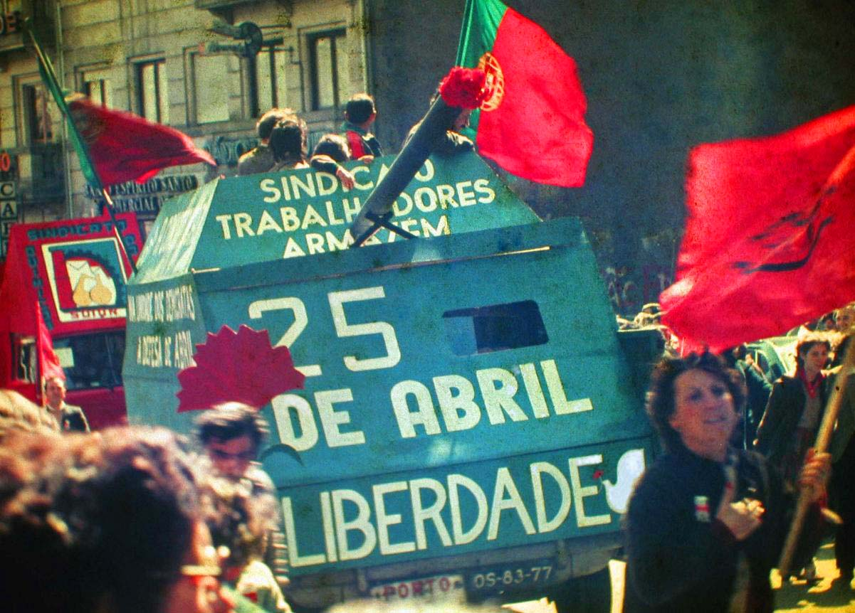 A demonstration in Oporto in April 25, 1983